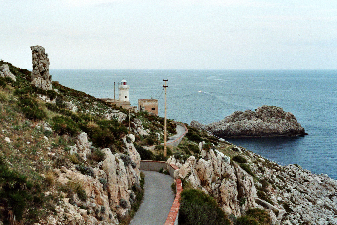 Capo Zafferano, light house and Scoglio Formica